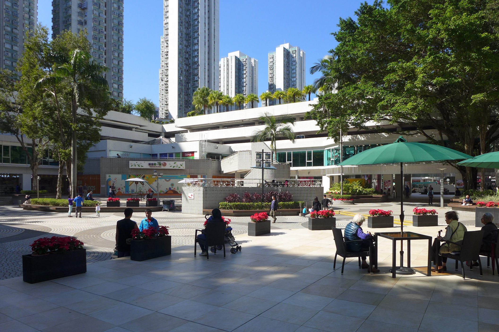 Fortune City One